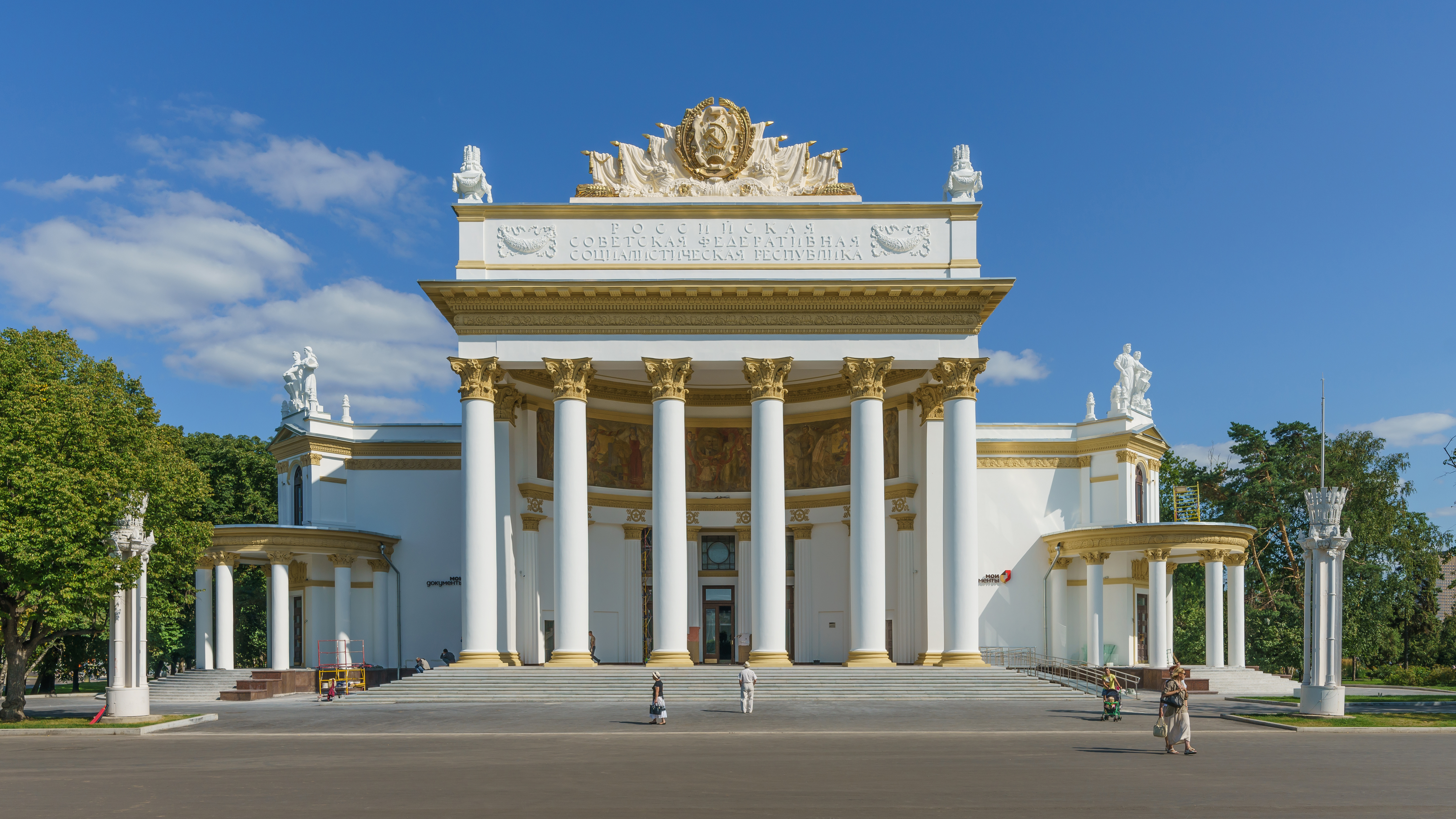 Russian SFSR Pavilion in VDNKh Park (former Agricultural Exhibition Ground) in Moscow, Russia.